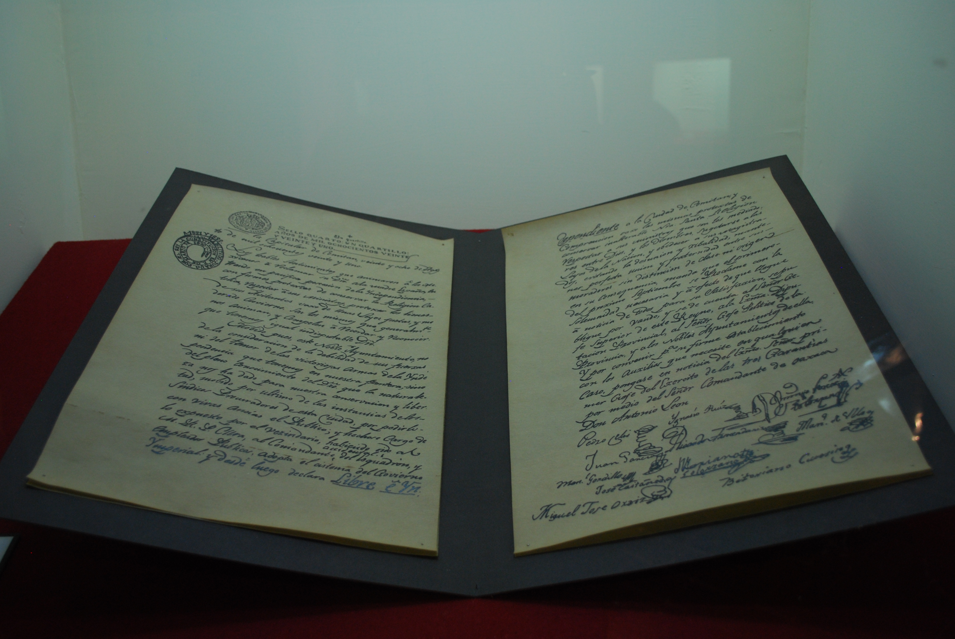 Declaration of Independence of Comitan, Chiapas in the Regional Museum in Tuxtla Gutierrez